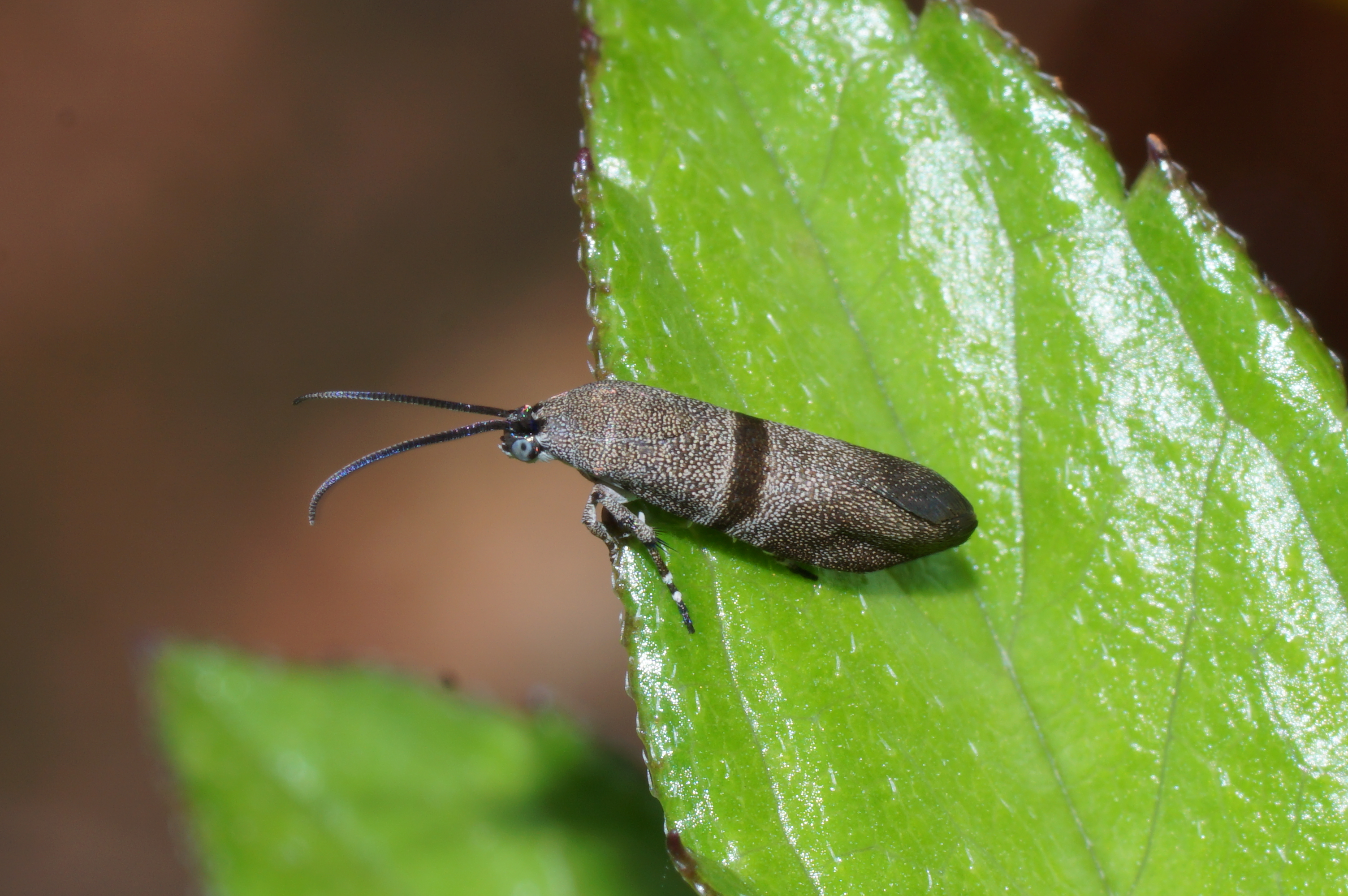 Insect